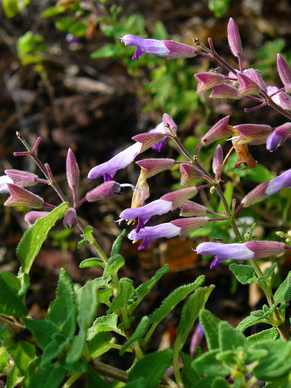 South Miami, Florida